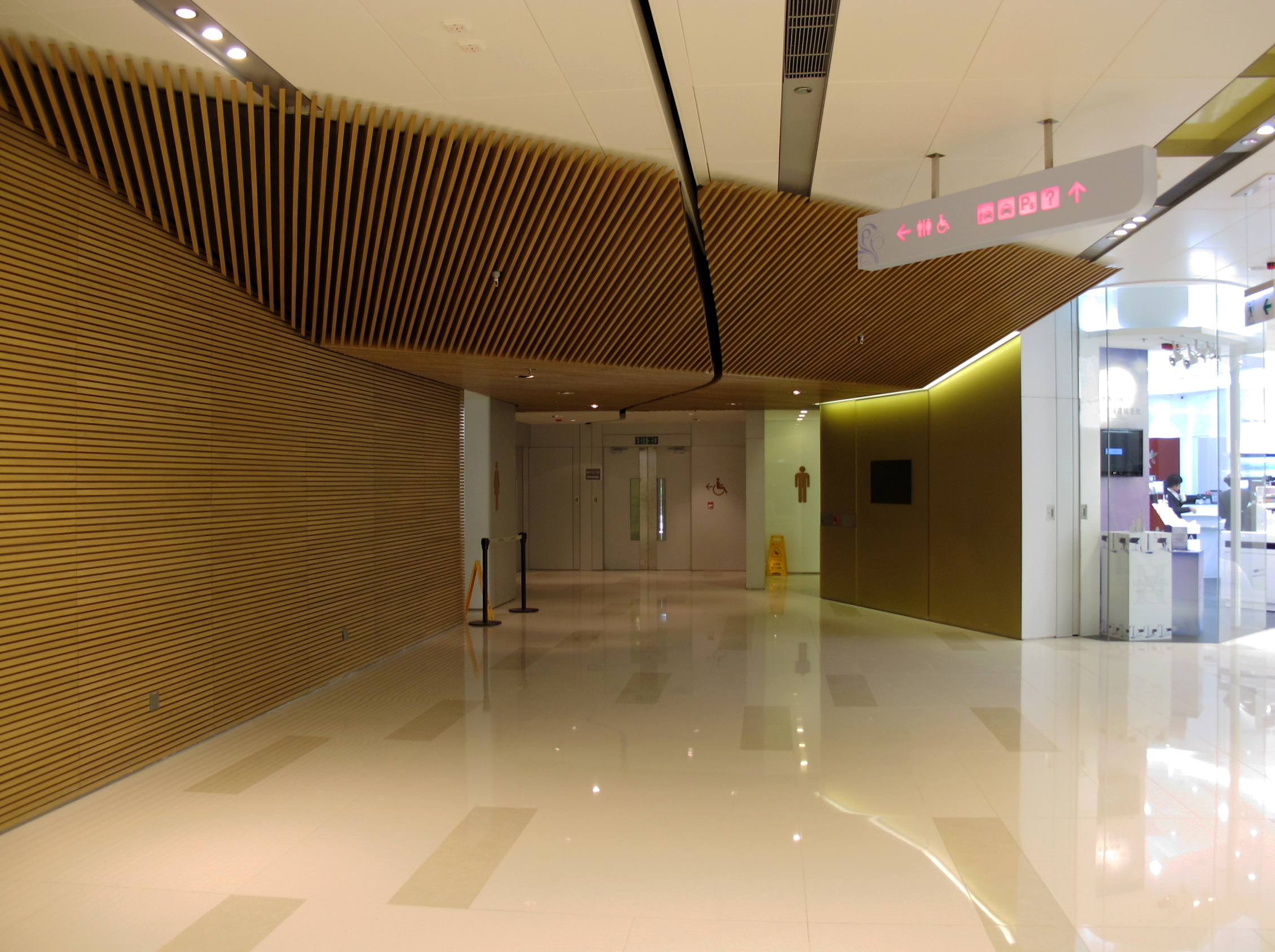 Mikiki GF Washroom Enterance